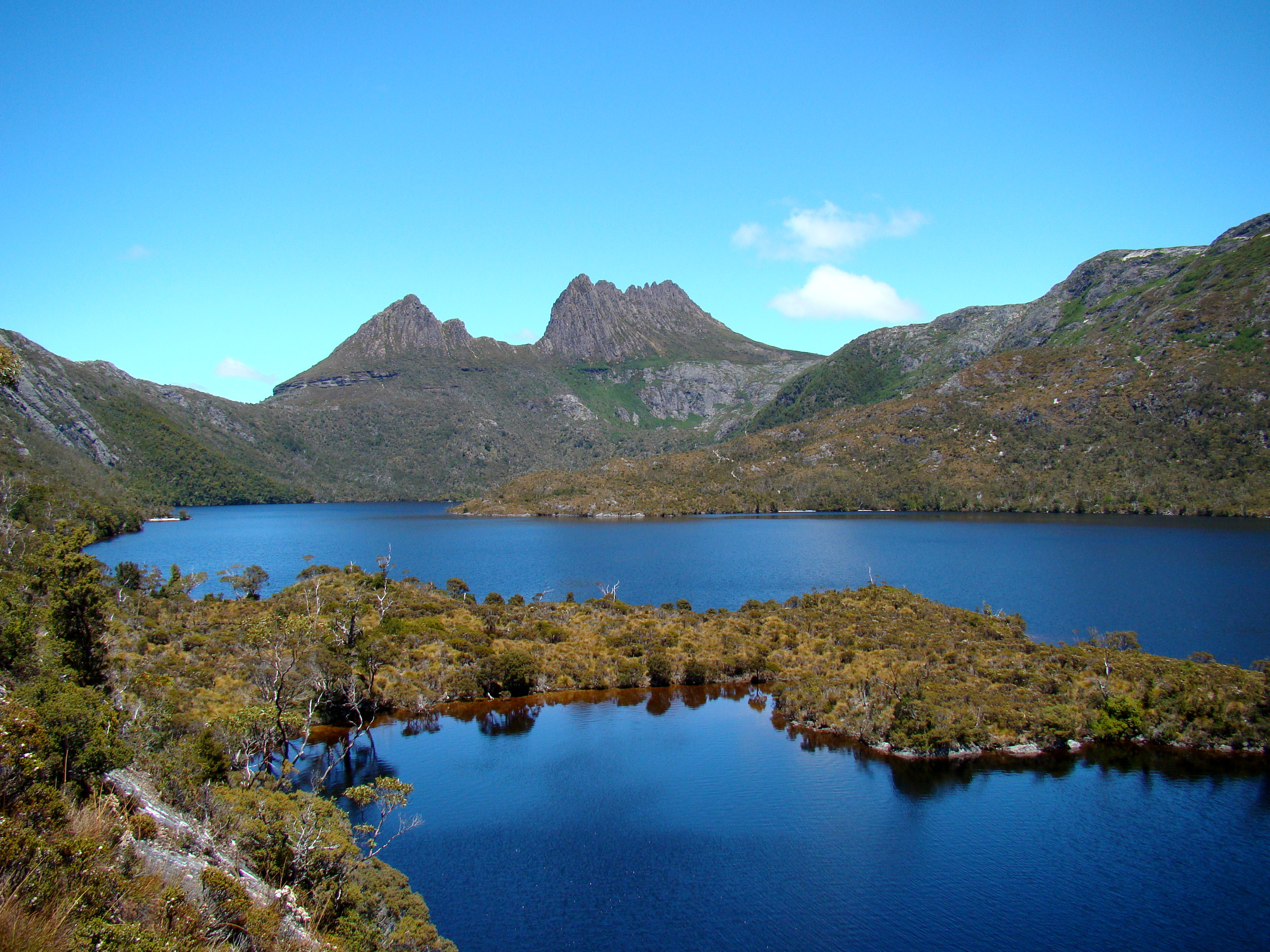 Cradle Mountain as seen from the north, across Dove Lake. This view can be had after a few hundred metres walk from the carpark.